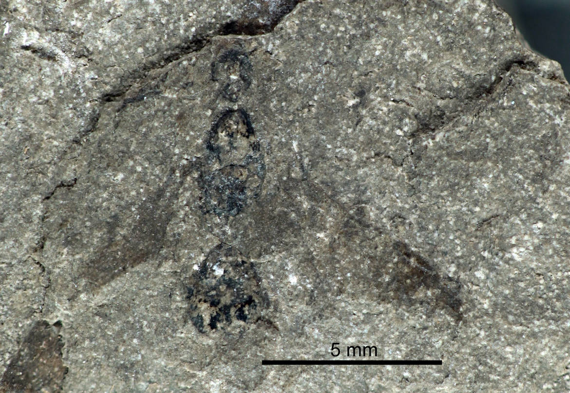 Dorsal view of the Paraphaenogaster jurinei neotype queen, (Synonym Myrmica jurinei Heer, 1849). Universalmuseum Joanneum Graz specimen UMJ211032. Universalmuseum Joanneum Graz, Styria, Austria. Burdigalian; Radoboj deposits; Radoboj area, Krapinsko-Zagorska, Croatia.